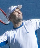 tighter crops of pics already posted